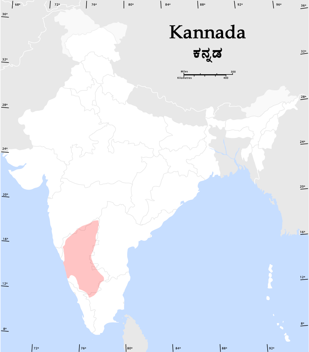 A map of the distribution of native Kannada speakers in India